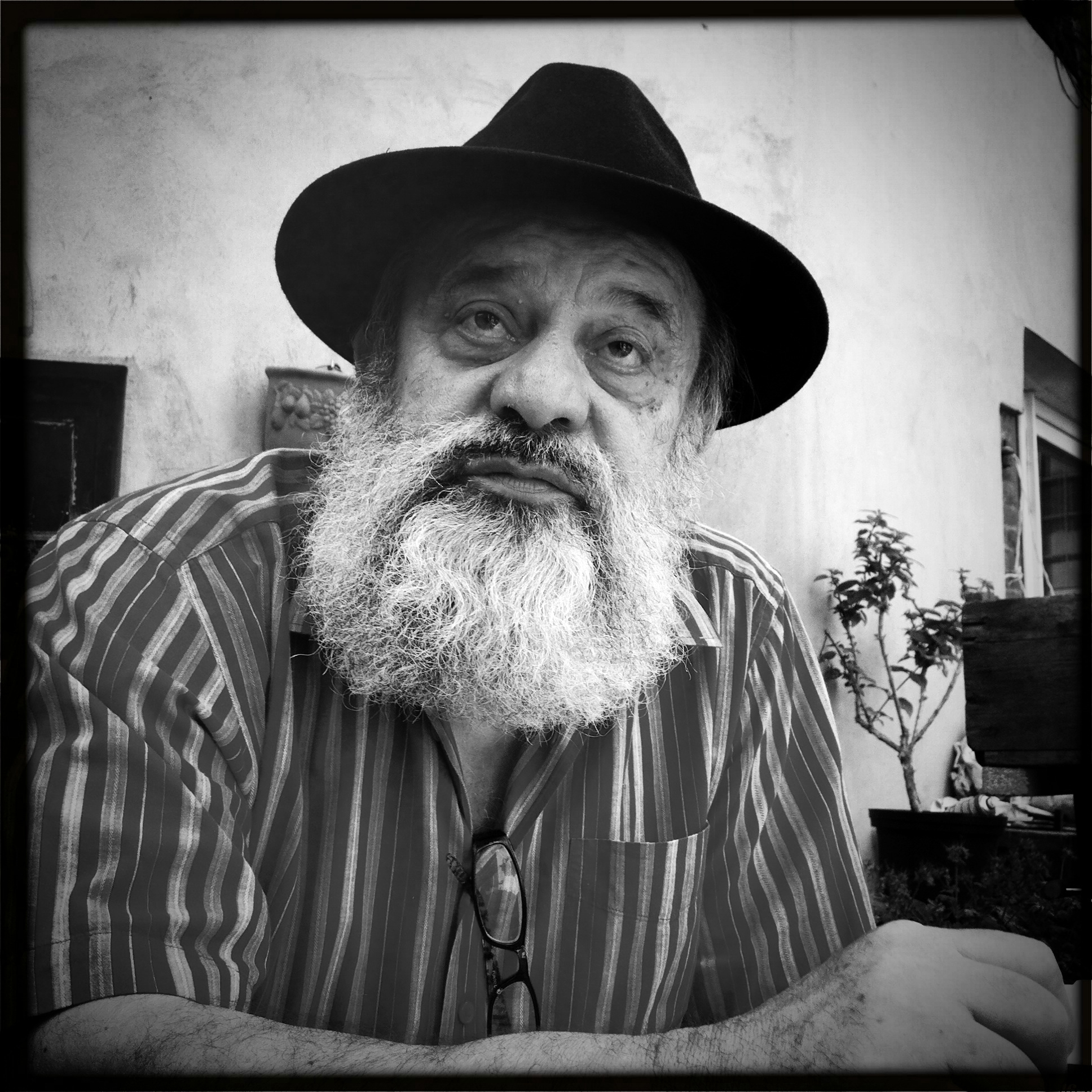 A hipstamatic portrait of Luxembourg artist Jean-Pierre Adam by François Besch